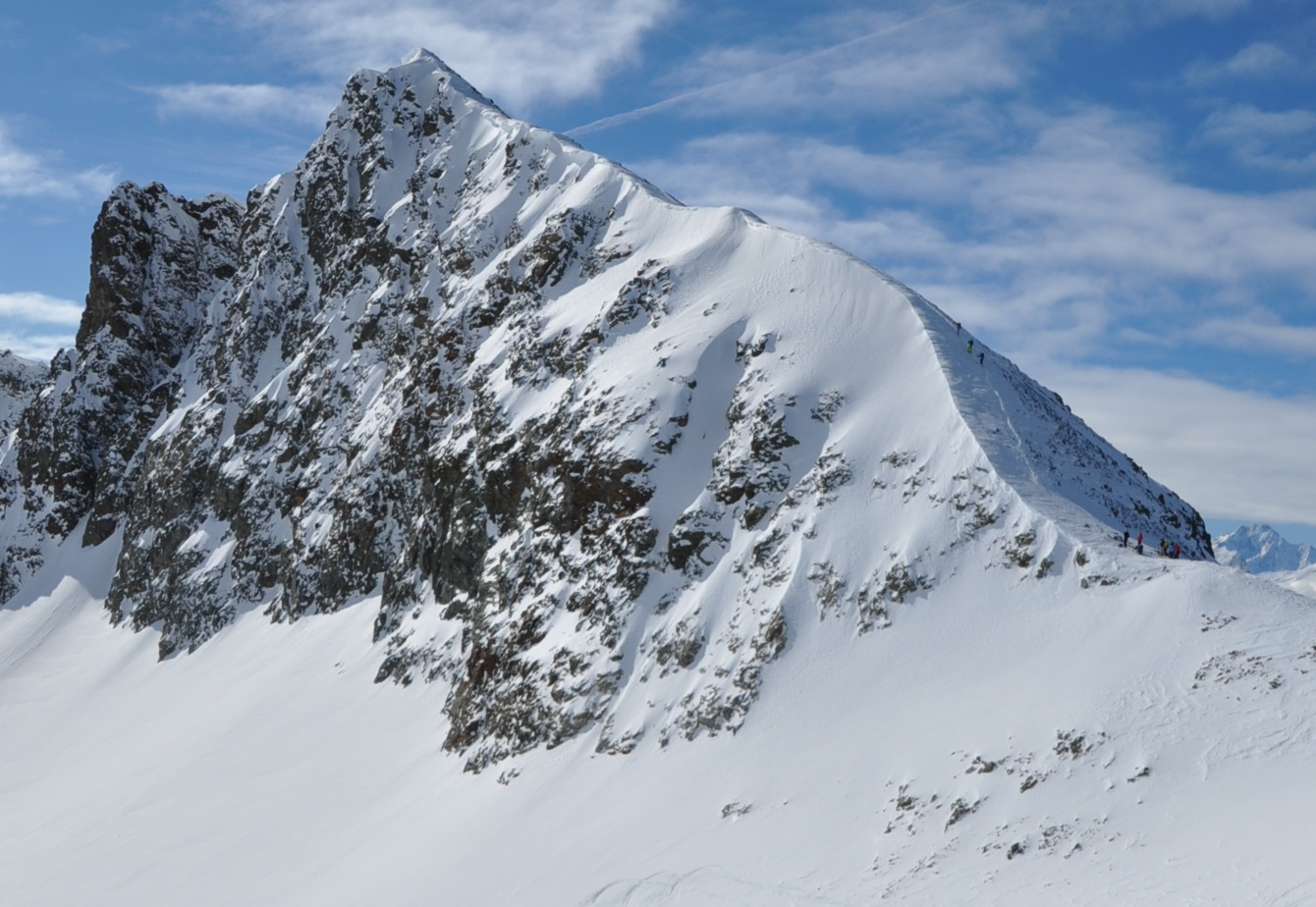 Piz d'Agnel, picture taken from Fuorcla da Flix (Surses/Bever, Grison, Switzerland)